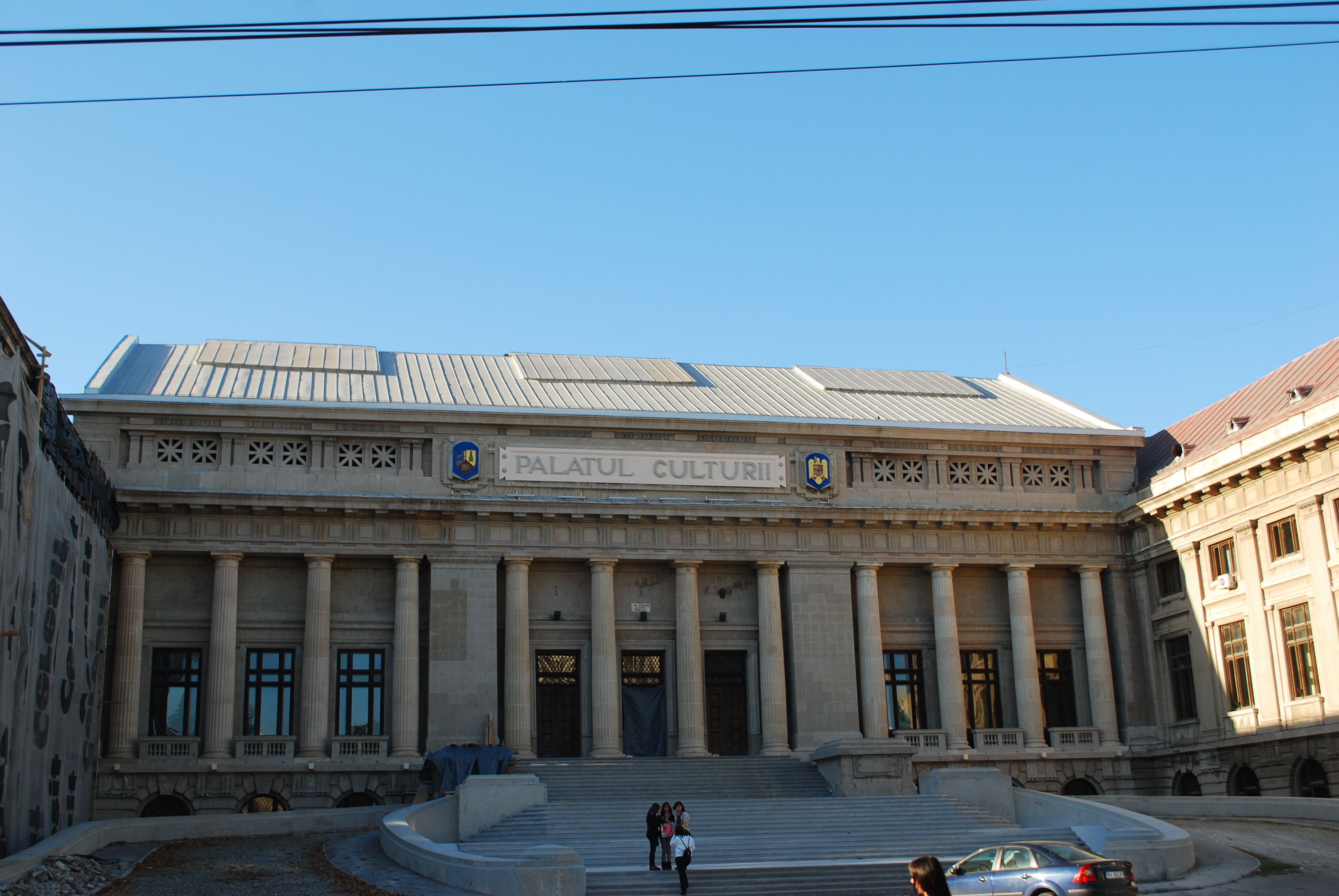 Palace of Culture in Ploieşti, Romania